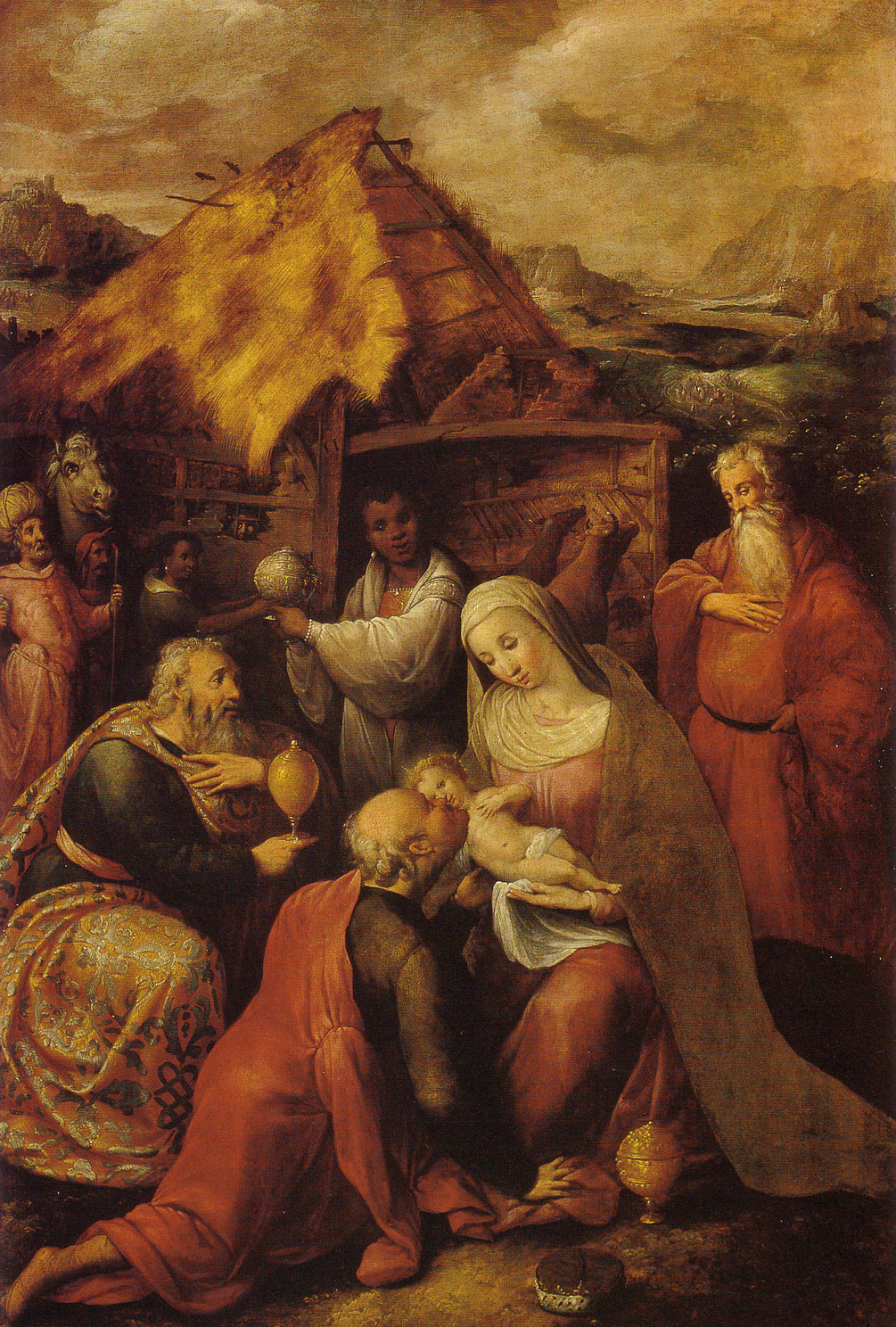 The Adoration of the Magi.